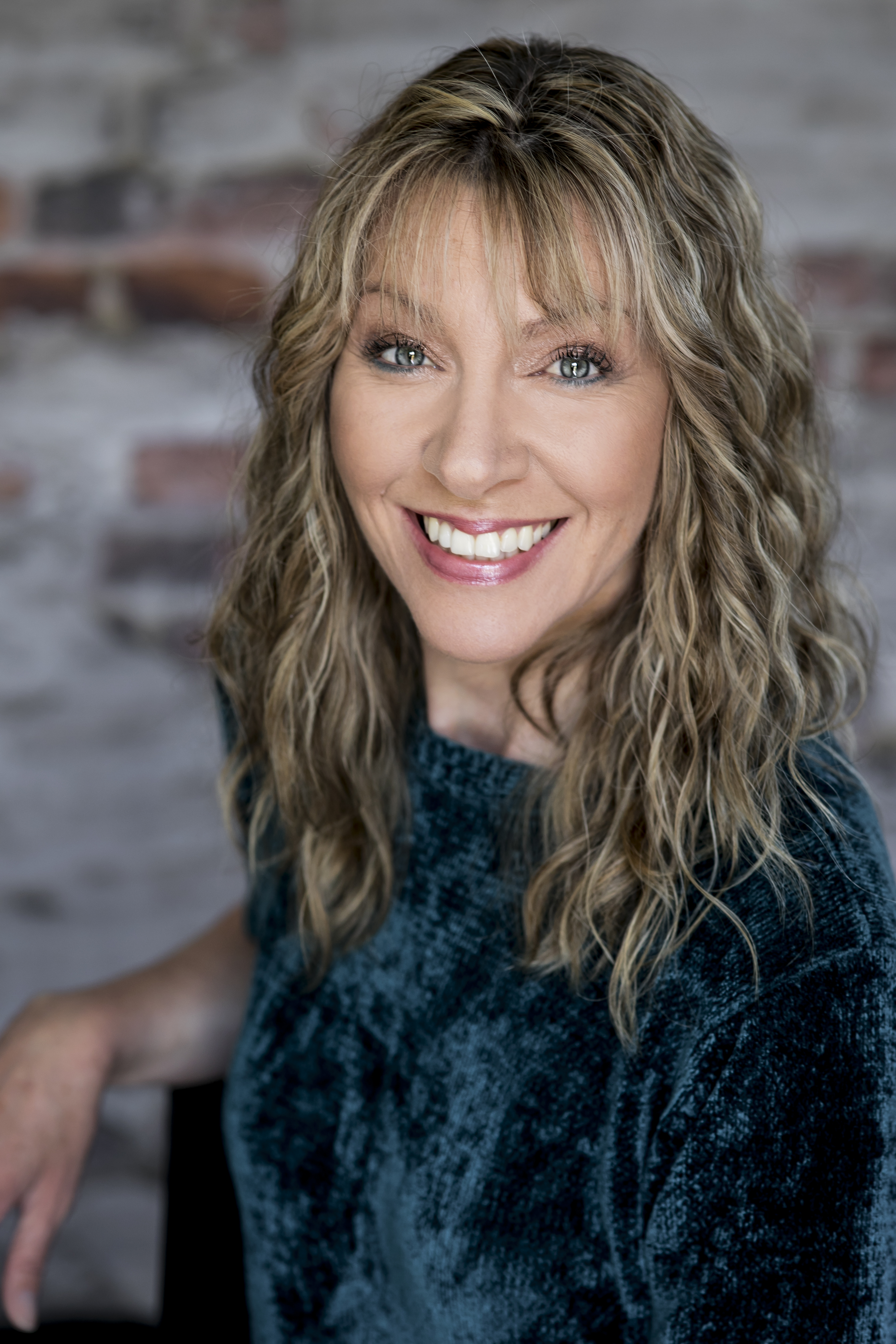 April Phillips 2017